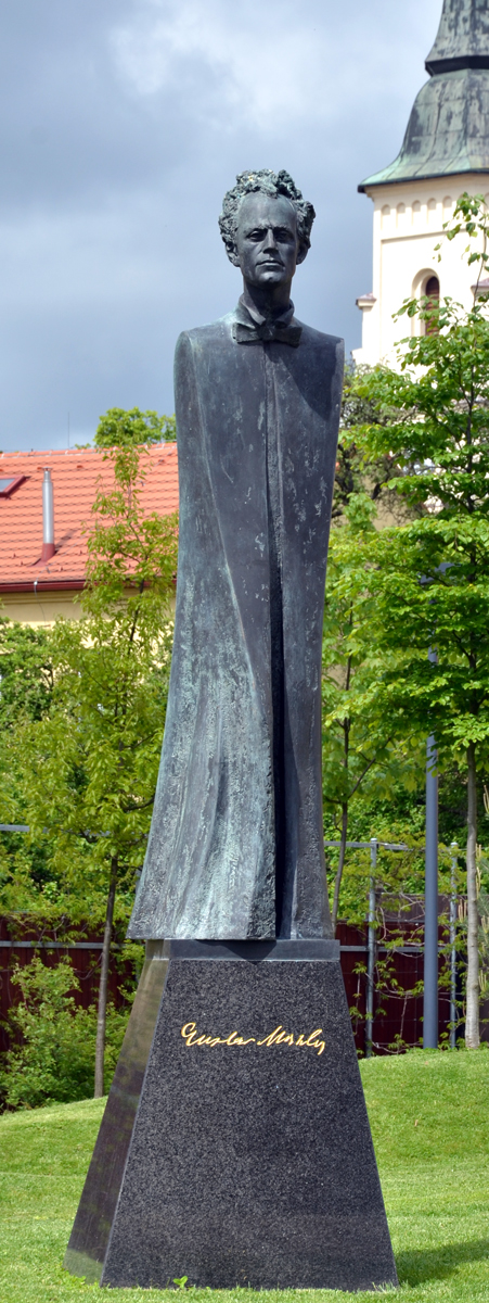 Statue of Gustav Mahler by Jan Koblasa, Jihlava